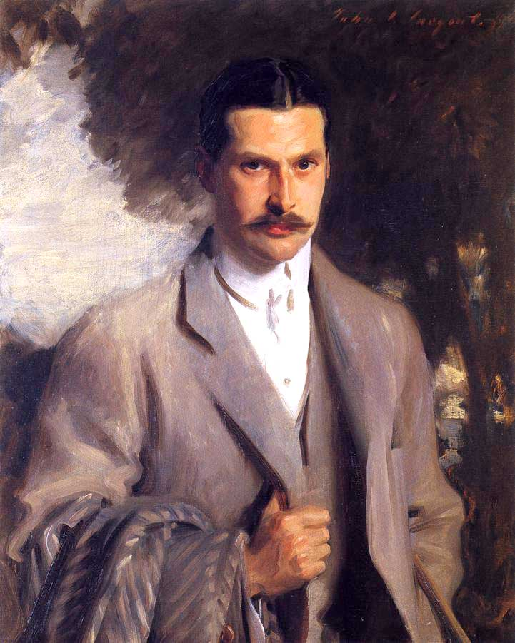 John Ridgely Carter John Singer Sargent -- American painter 1901 Private collection Oil on canvas 85.1 x 67.31 cm (33.5 x 26.5 in.) Jpg